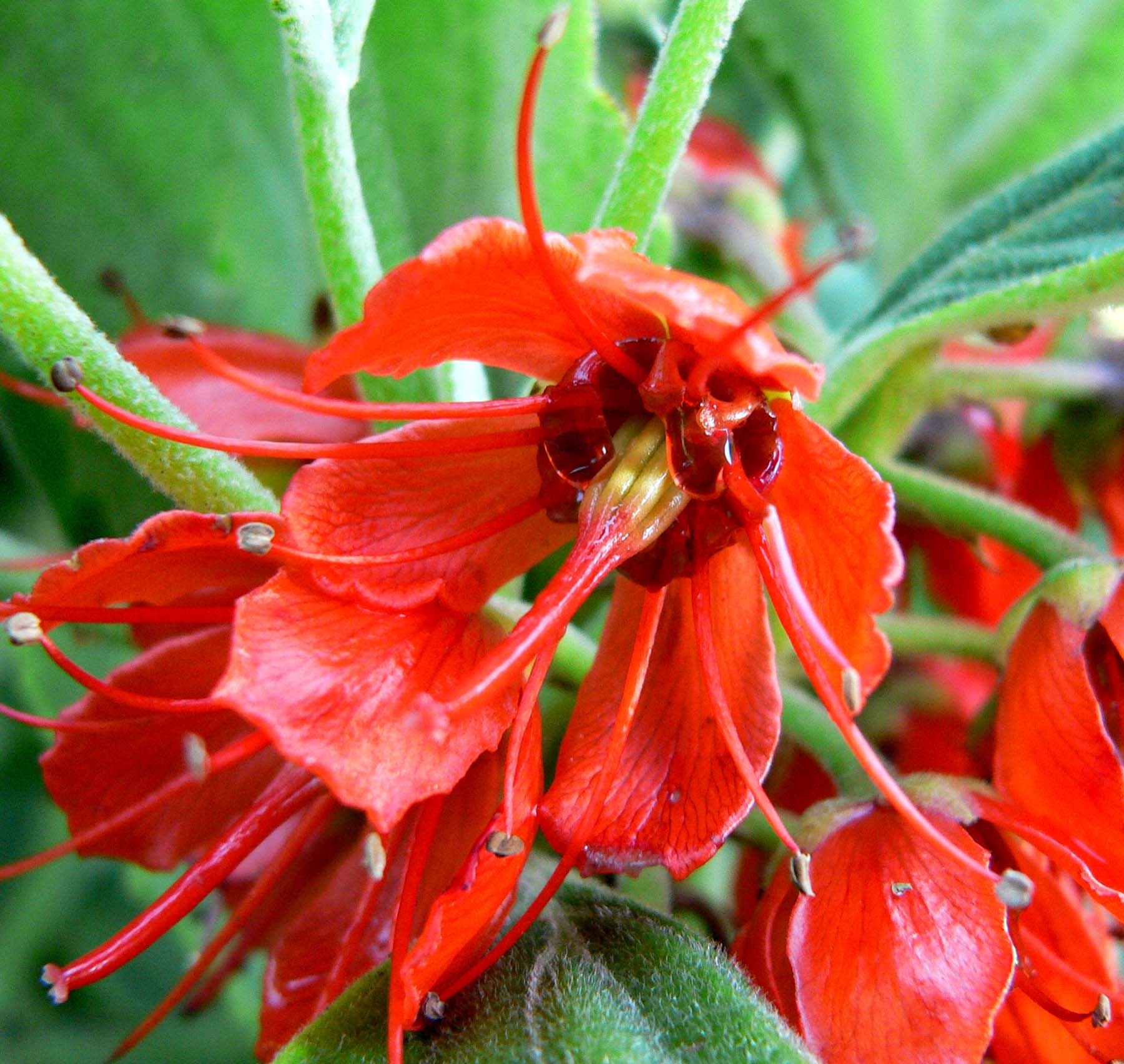 Photo of Greyia radlkoferi at the San Francisco Botanical Garden